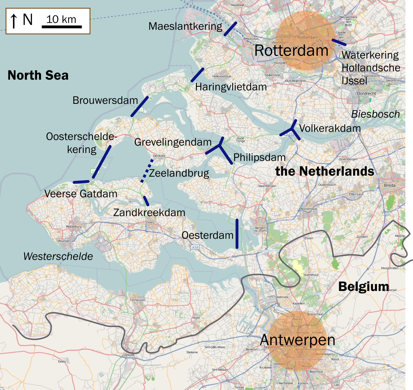 Map of the Deltawerken in Zeeland, The Netherlands